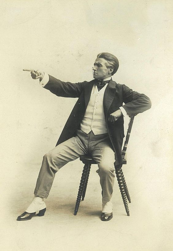 This sepia coloured image taken in 1912, shows a 23 year old Claude Rains in one of his early theatre roles.